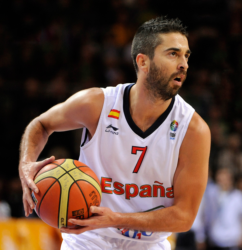 Juan Carlos Navarro during EuroBasket 2011